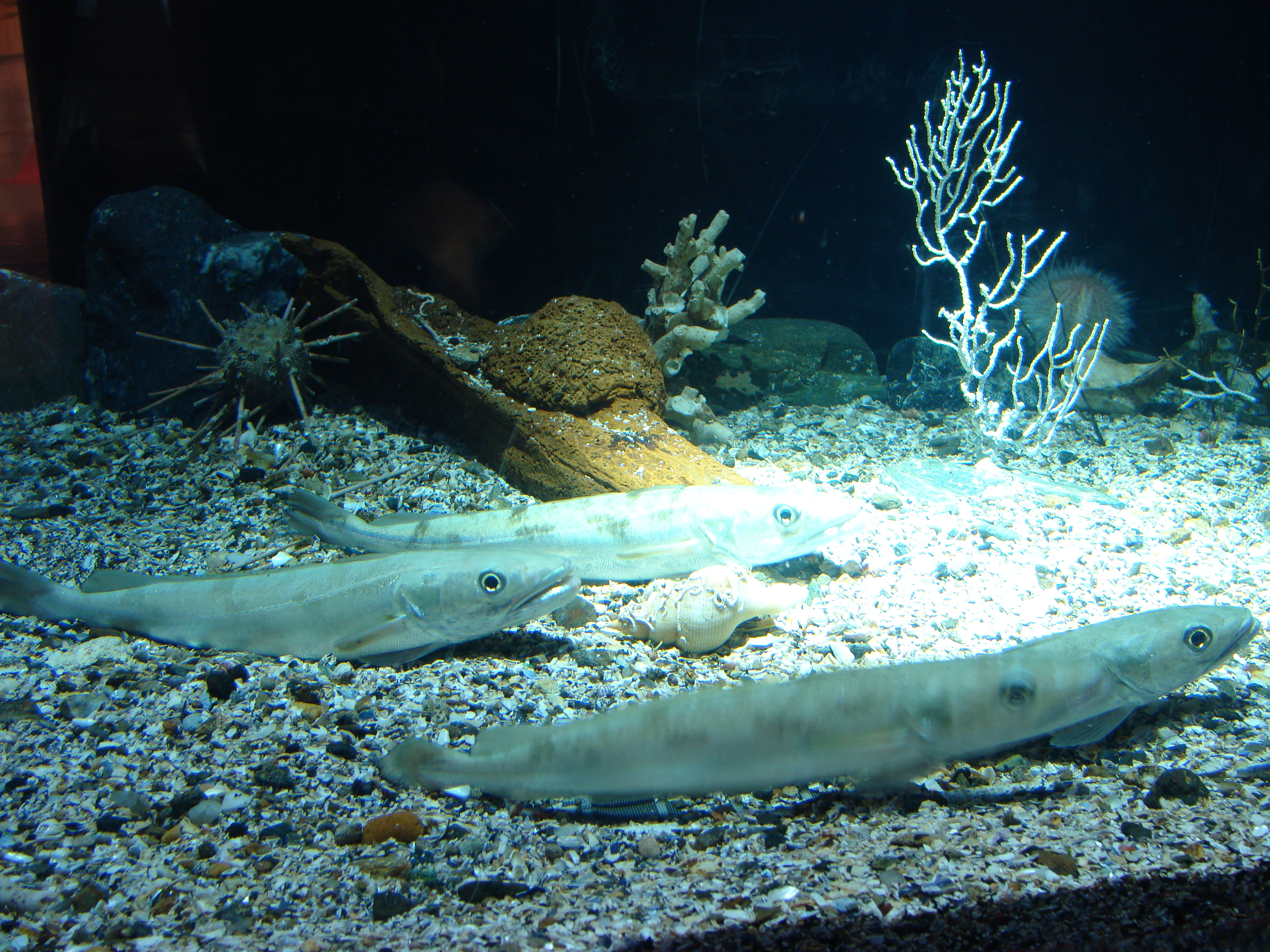 Merluccius merluccius in Sala Maremagnum of Aquarium Finisterrae (House of the Fishes), in Corunna, Galicia, Spain.